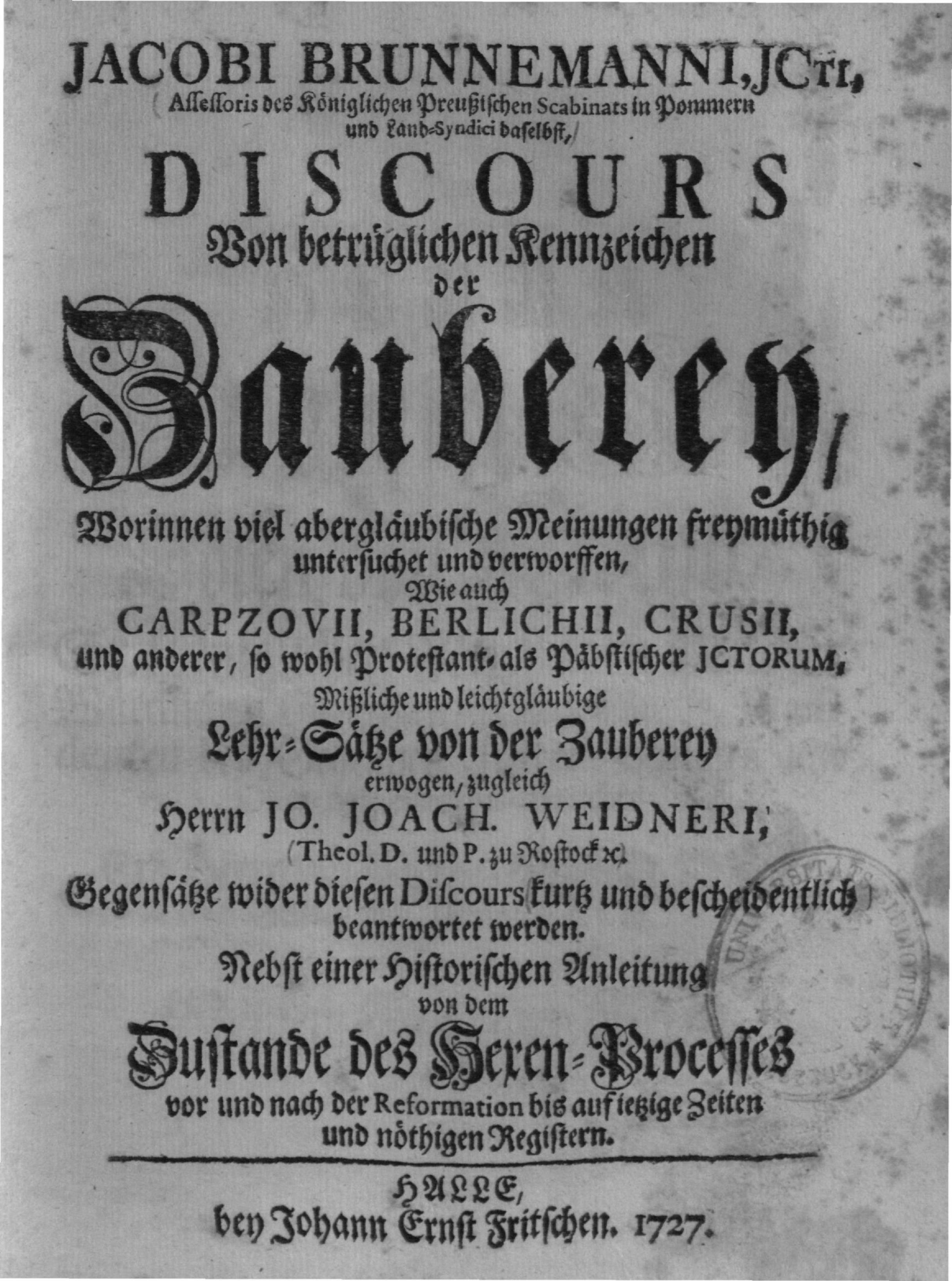 This is a scan of the historical document